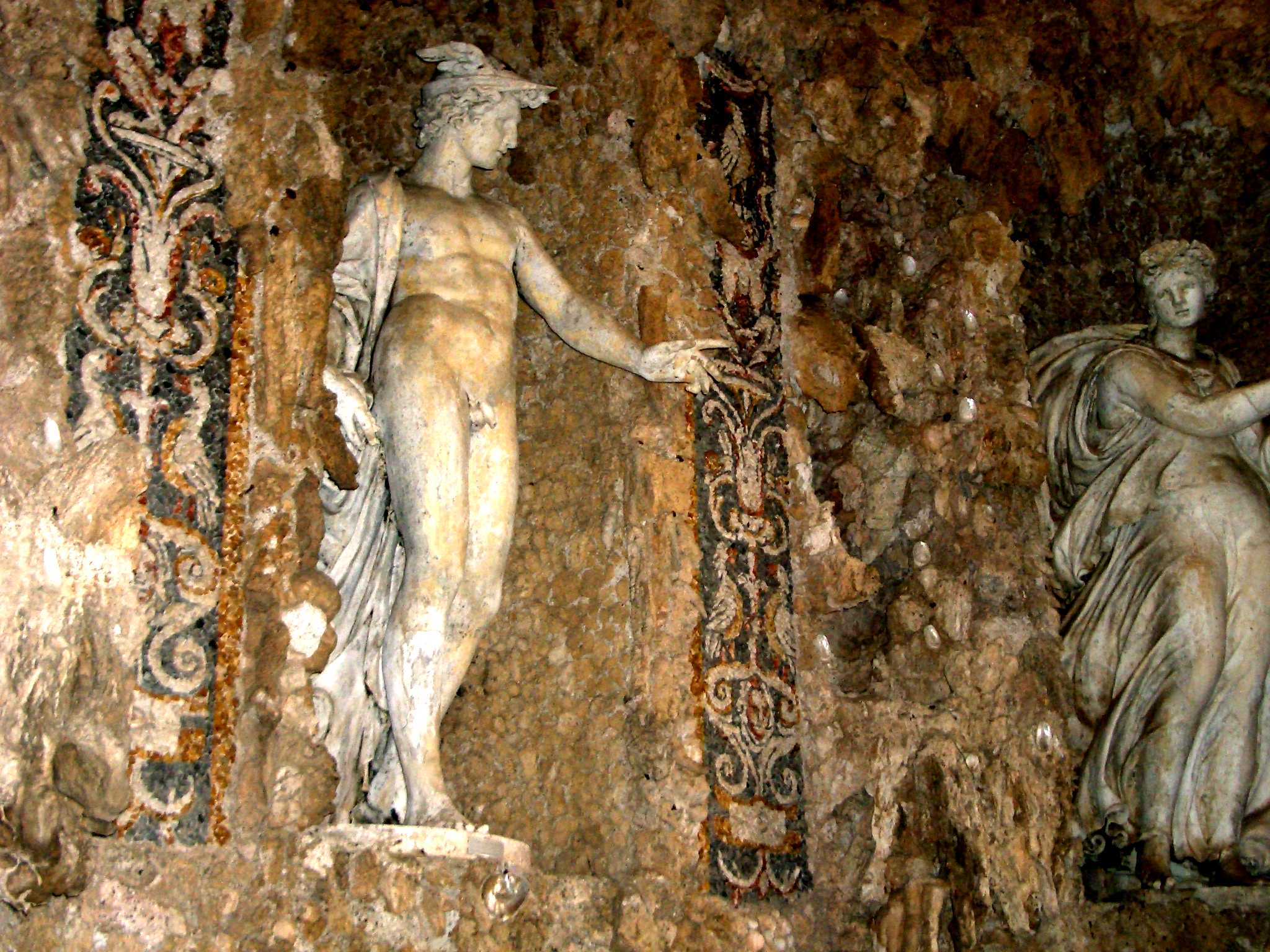 Villa Visconti Borromeo Arese Litta, Lainate (Milano, Italy). "Atrio dei Quattro Venti" in the nymphaeum.